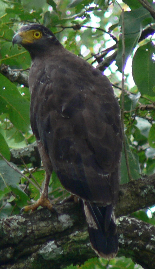 Description Crested Serpent Eagle (Spilornis cheela). Location [1] Date August 2006 Photographer User:prashanthns